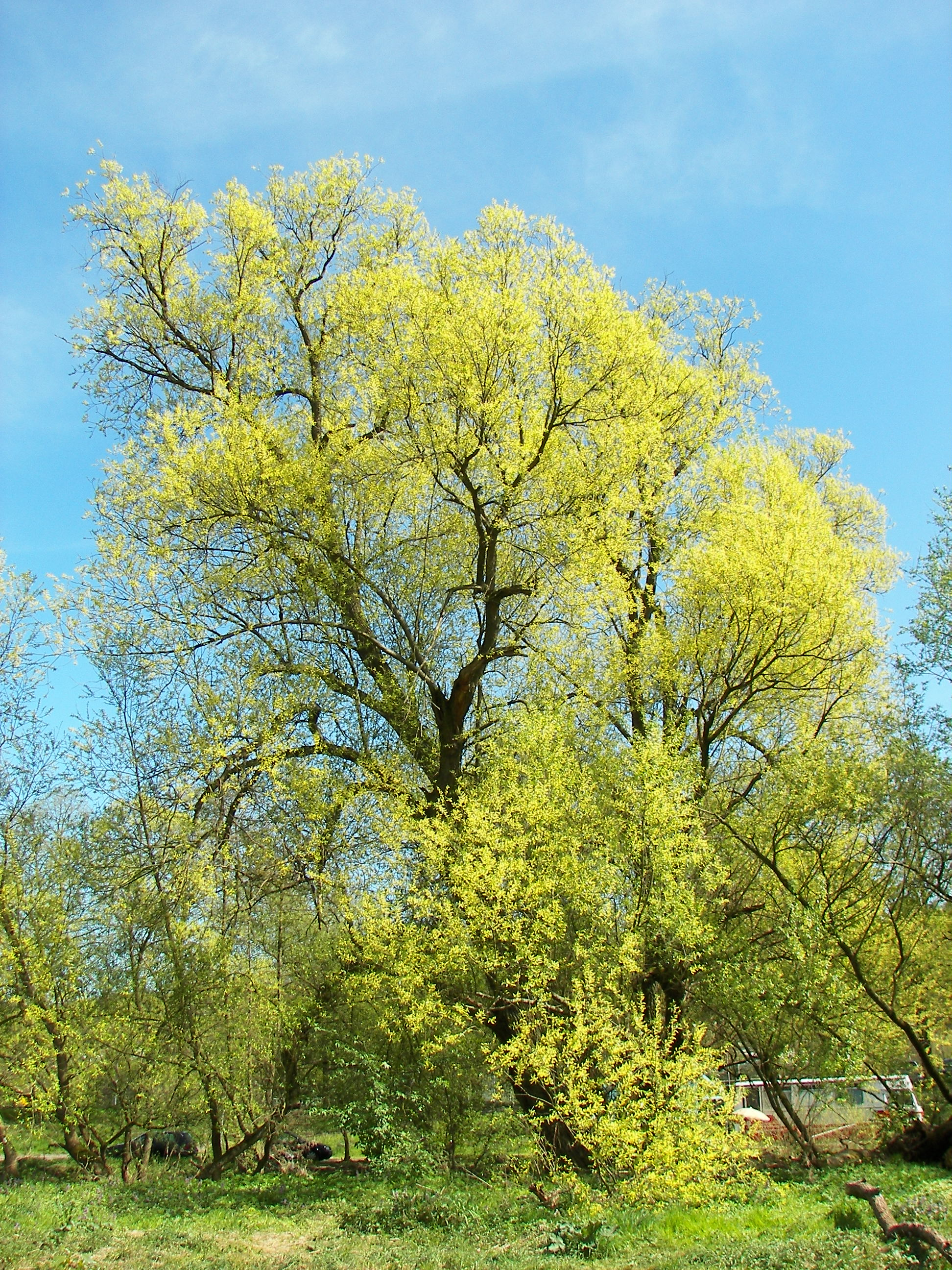 White Willow (Salix alba), Tree with male catkins, Location: Marburg, Hesse, Germany